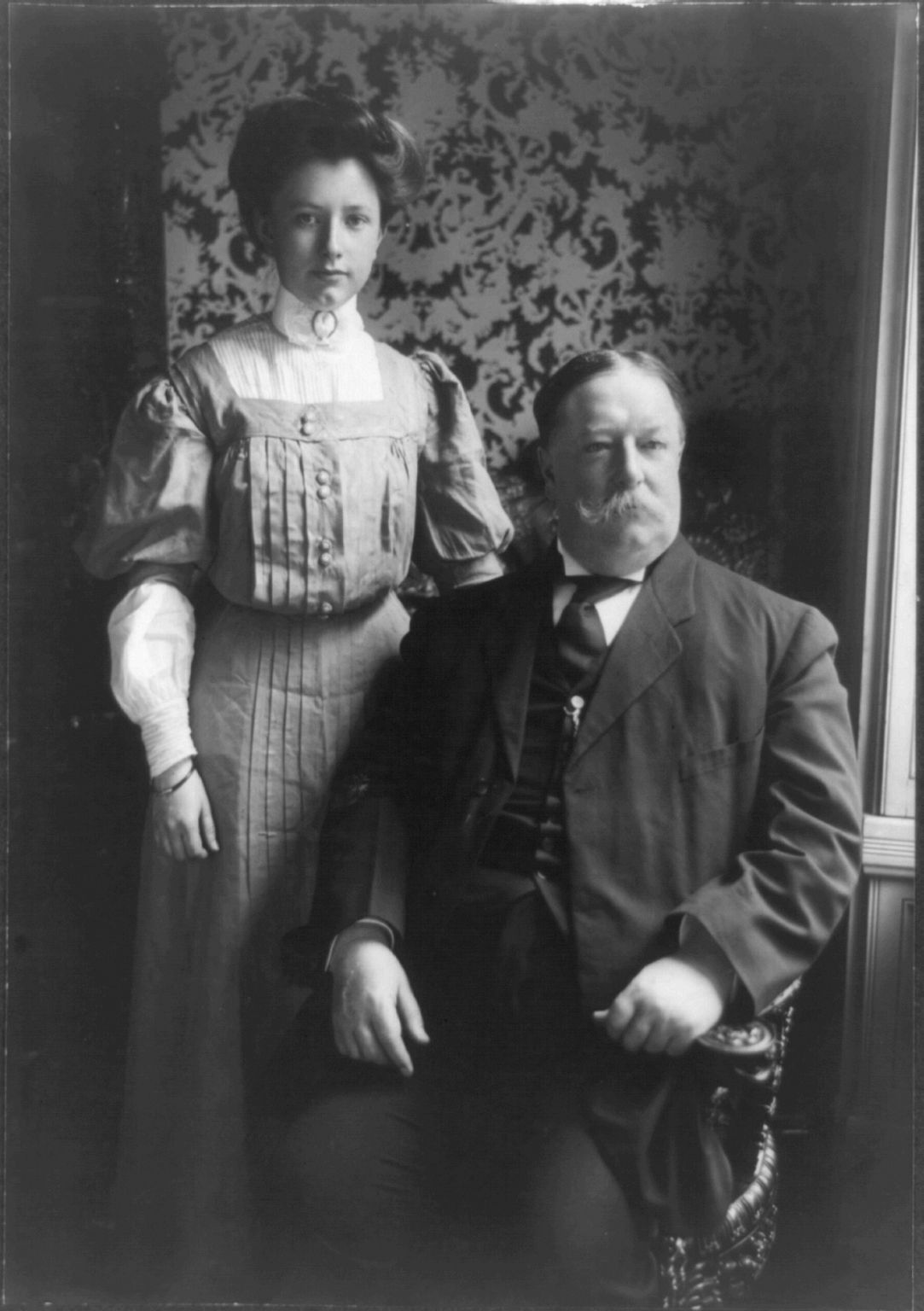 William Howard Taft, three-quarter length portrait, seated, facing right; with his daughter standing alongside him]